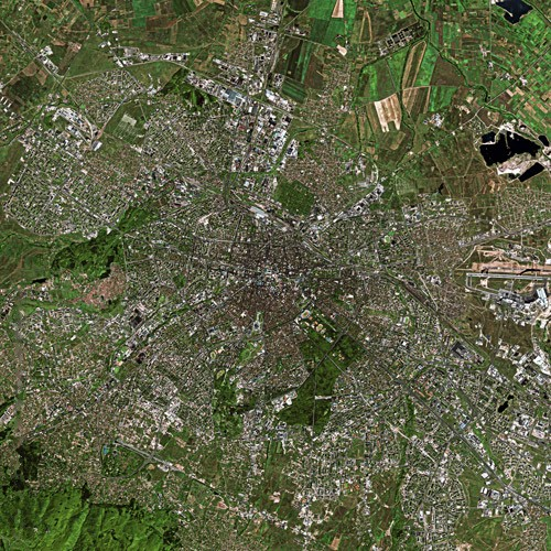 Sofia by SPOT Satellite